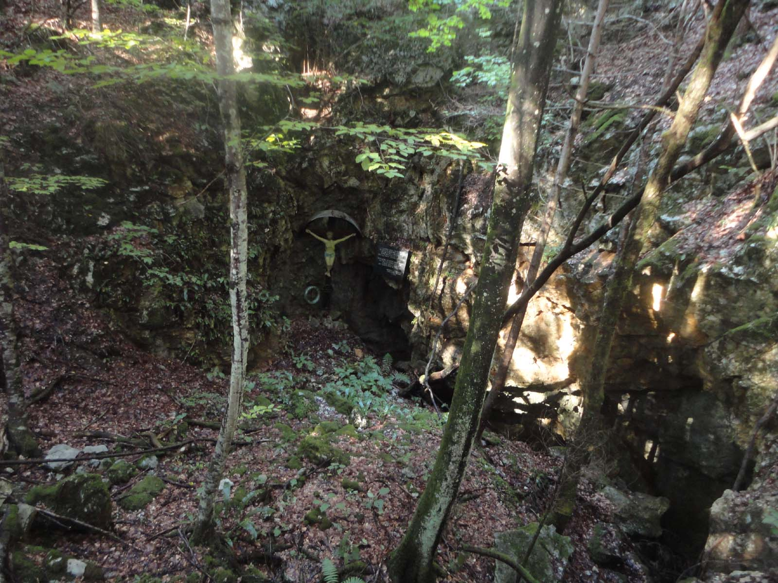 Filled cave under Macesnova Gorica in Kočevski Rog (Slovenia) at the site of mass murder of Slovenian domobrans, Ustasha and Chetniks by Jugoslav partisans after WWII (May and June 1945). After the massacre the cave was blown up.